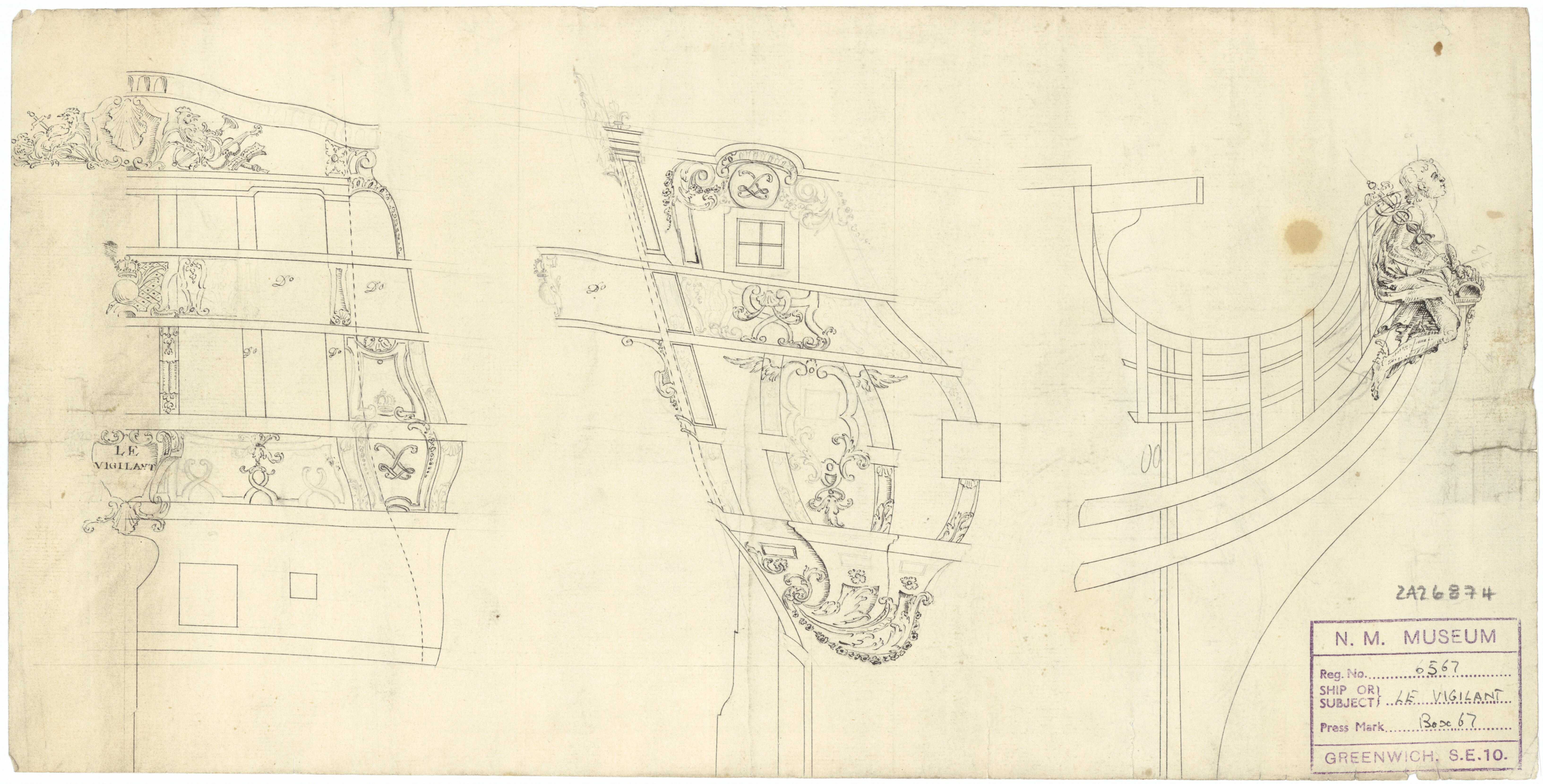 Vigilant (1745) No scale. Plan showing the starboard half of the stern board with decoration detail, starboard stern quarter gallery decoration, and starboard profile of the figurehead for Vigilant (1745), a captured French Third Rate, as taken off prior to fitting as a 58 gun Fourth Rate, two-decker. This plan may represent the vessel soon after capture. NMM, Progress Book, volume 2, folio 179 states that 'Vigilant' (1745) was surveyed by Admiralty Order dated 8 April at Portsmouth Dockyard. She arrived on 30 April 1747 and was docked on 12 May 1747. After being undocked on 16 May the 'Vigilant' was re-docked on 11 June 1747. Having been undocked on 12 June, she sailed on 21 June 1747 after being refitted at the cost of £9,754.0s.6d. 'Vigilant' was refitted again at Portsmouth between 2 September and 28 Setpember 1747, and in June 1759 was surveyed and sold after being found to want Middling repairs. stern